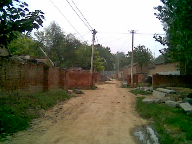 village